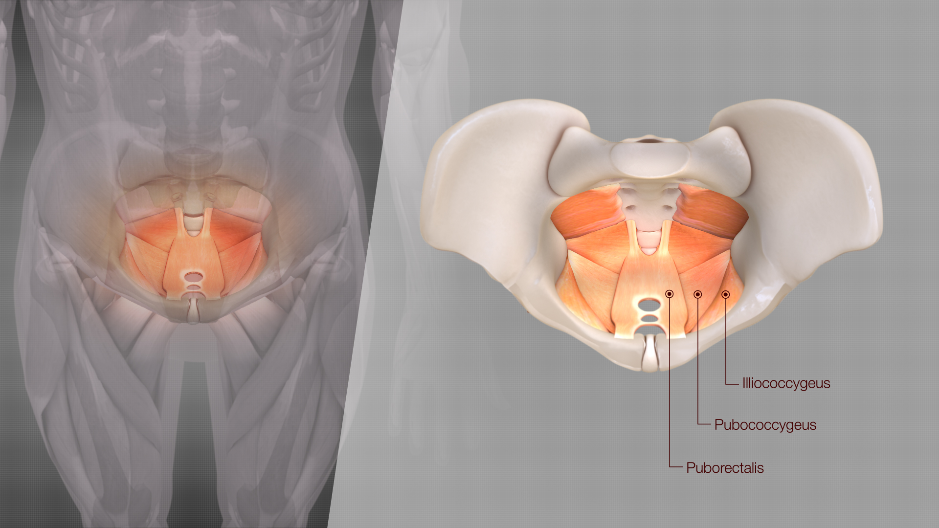 3D medical animation still shot depicting levator ani its exact position and structure.